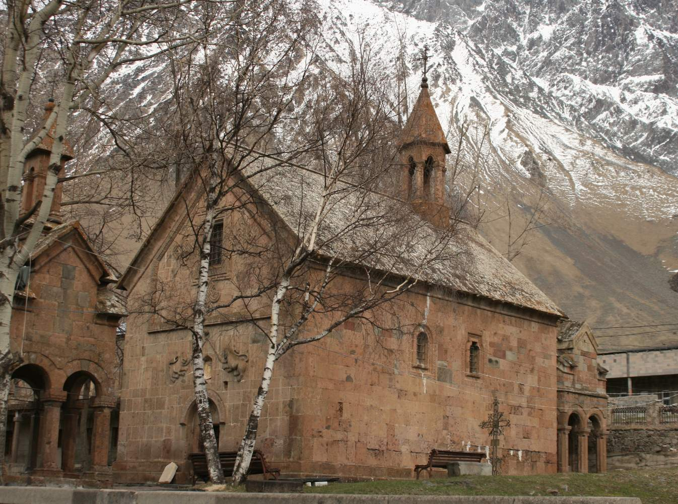 Stepantsminda. St. Nicholas church